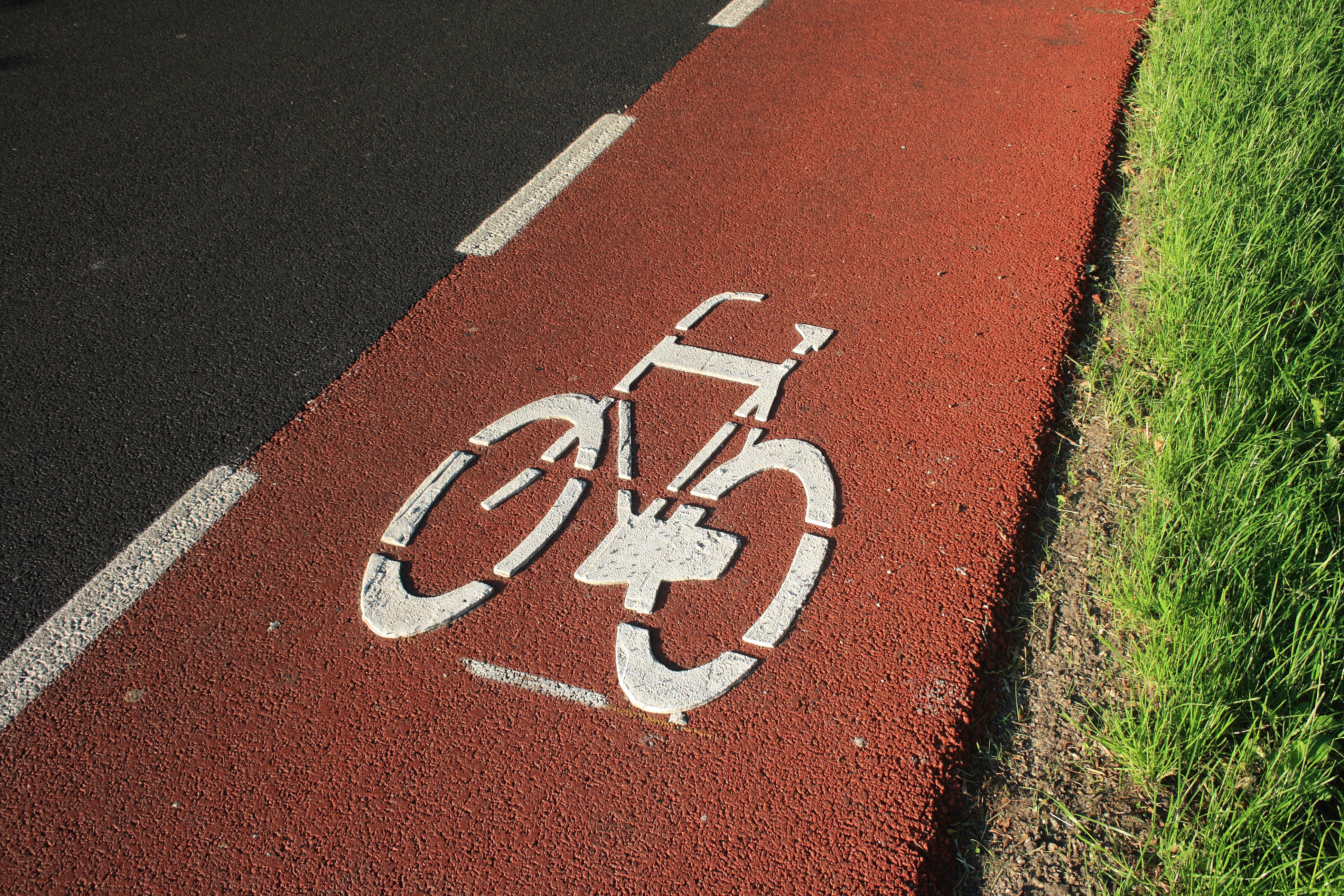 A red bike lane on the side of a highway in the evening sun.